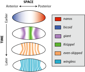 Schematic of characteristic patterns of gene expression during Drosophila embryonic development.